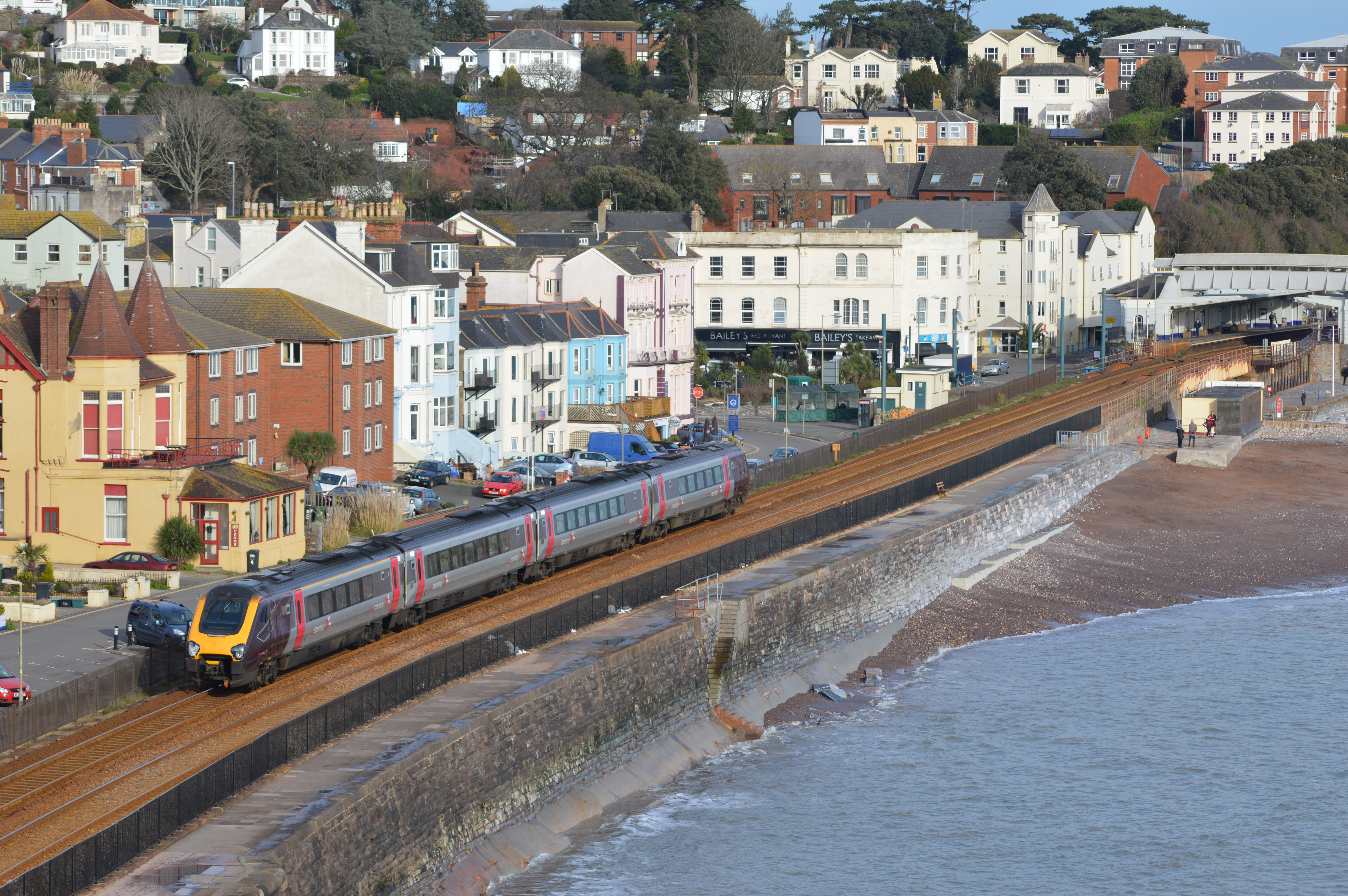 A view of Dawlish seafront.